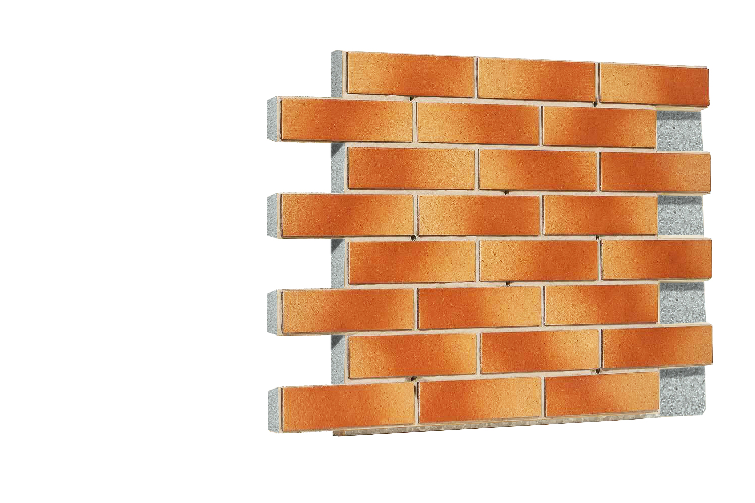 Thermopanel 1